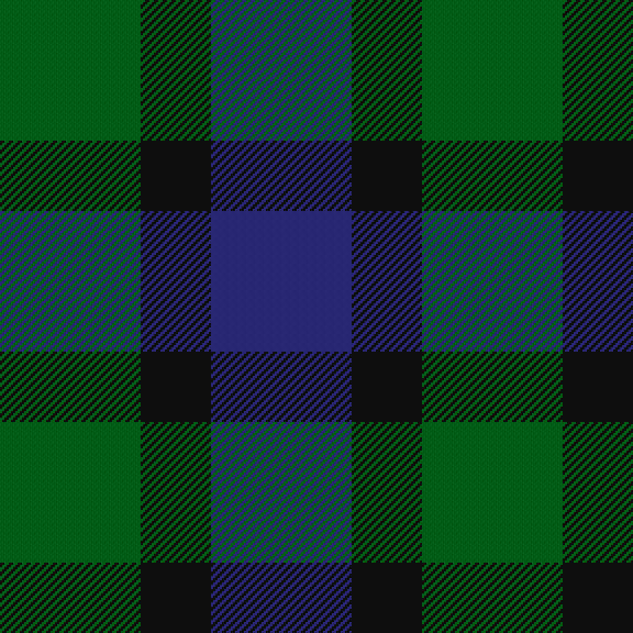 Common base of Campbell tartan : Black and Green separated by a half black stripe.